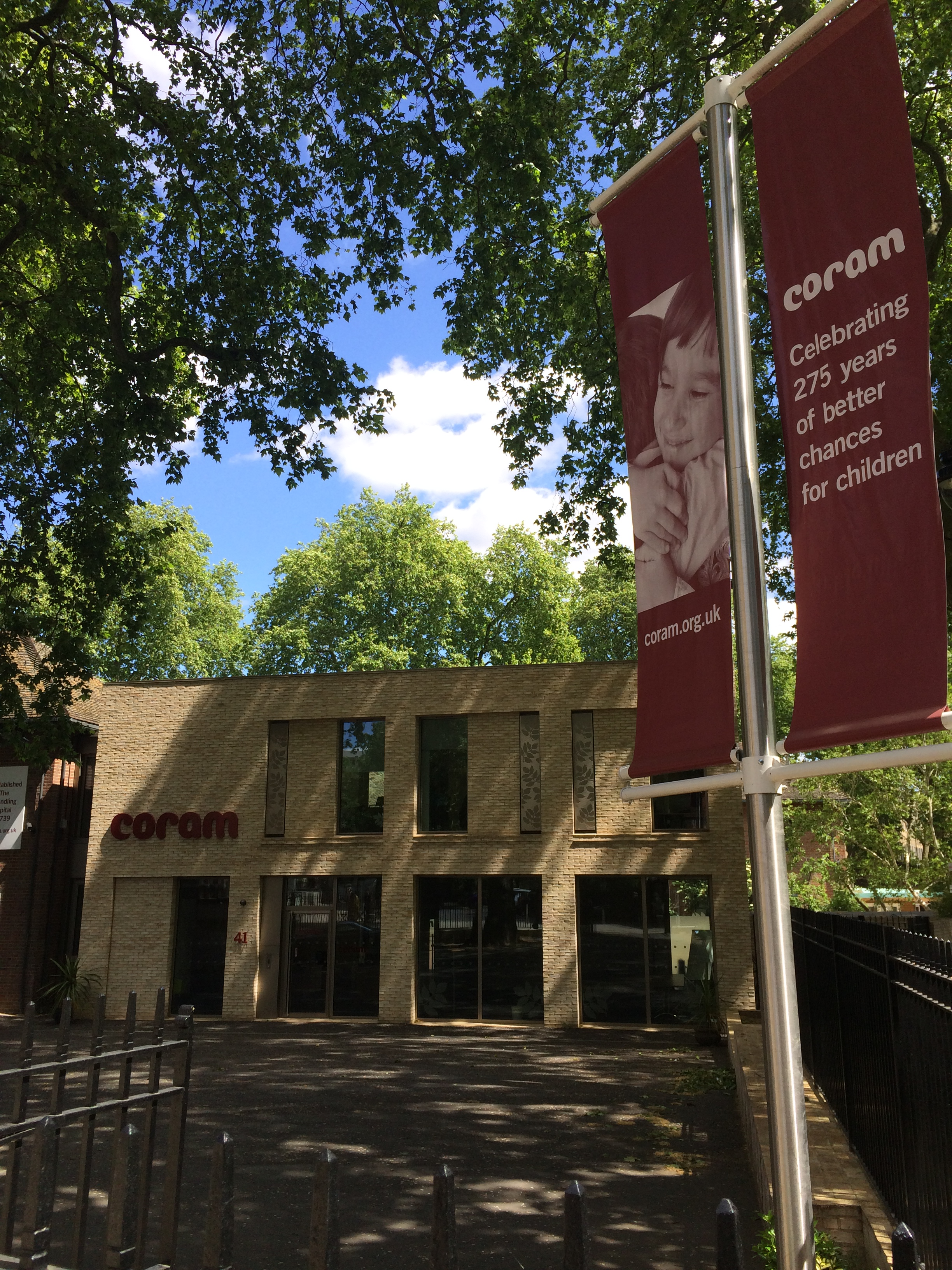 This is the entrance to the Coram Campus, the UK's first children's charity